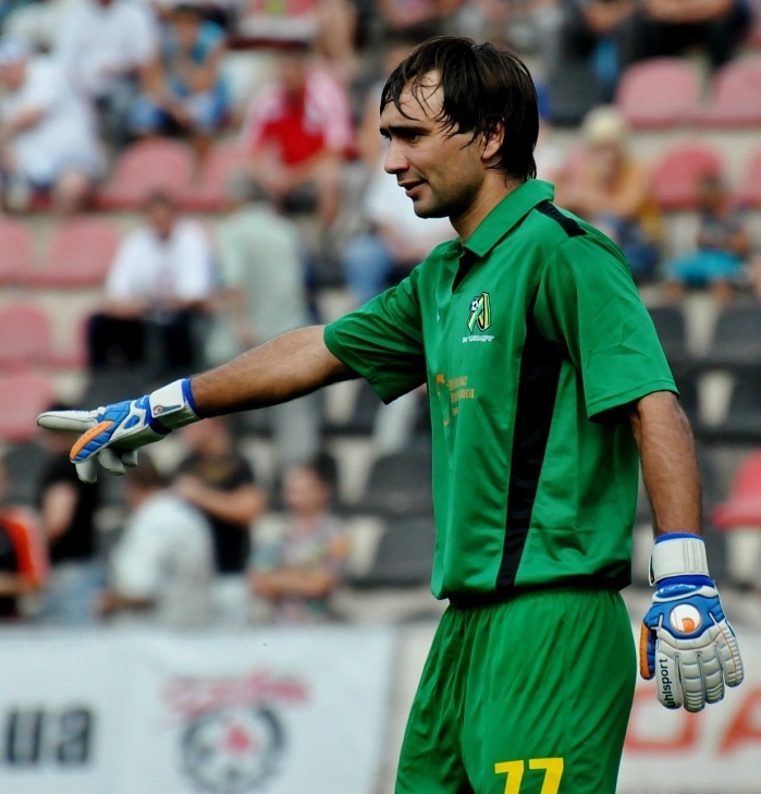 Yuriy Pankiv, goalkeeper of PFC Oleksandriya